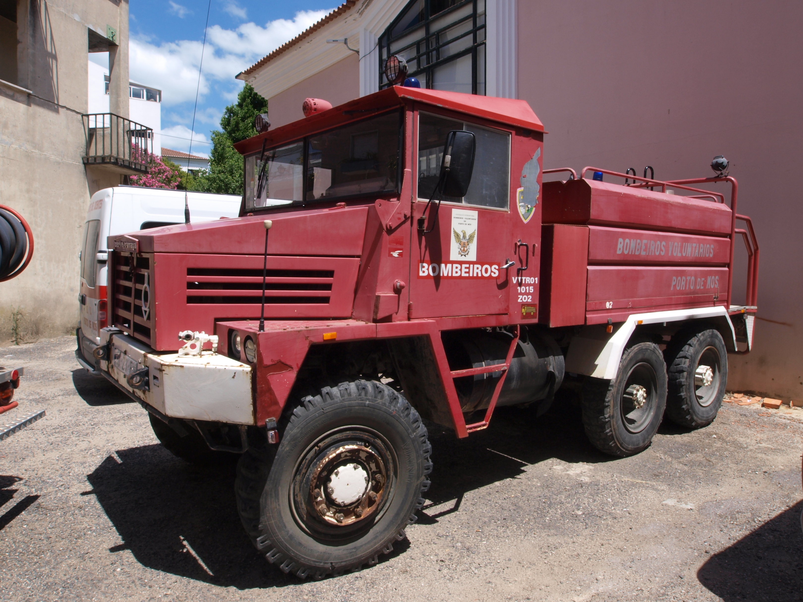 Photographed in Portugal.